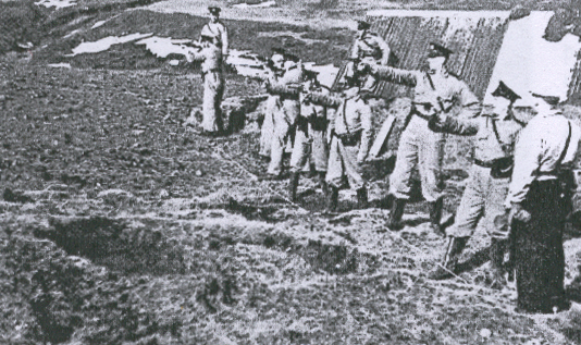 The training of officers for the aborted Icelandic Army of 1940.